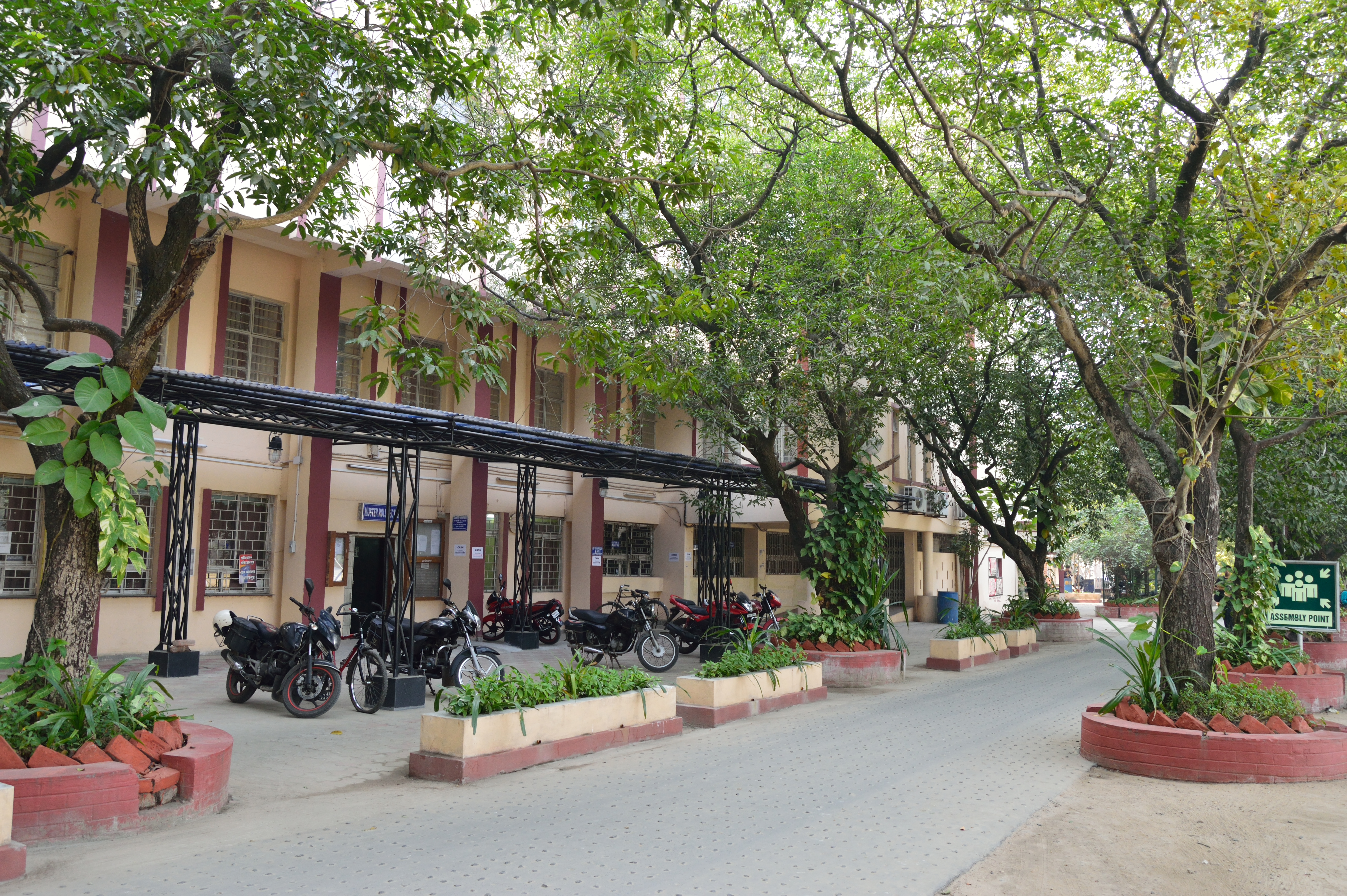 This photograph was taken at the Jadavpur University campus, kolkata.